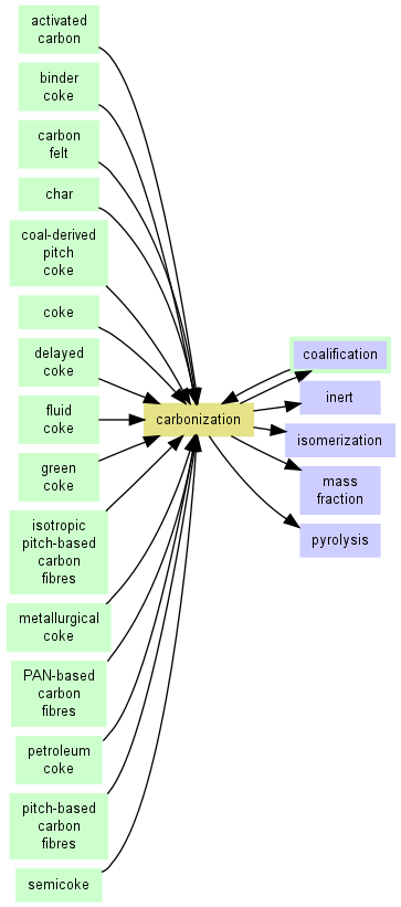 A link-map providing processes that go into and occur as a result of carbonization.